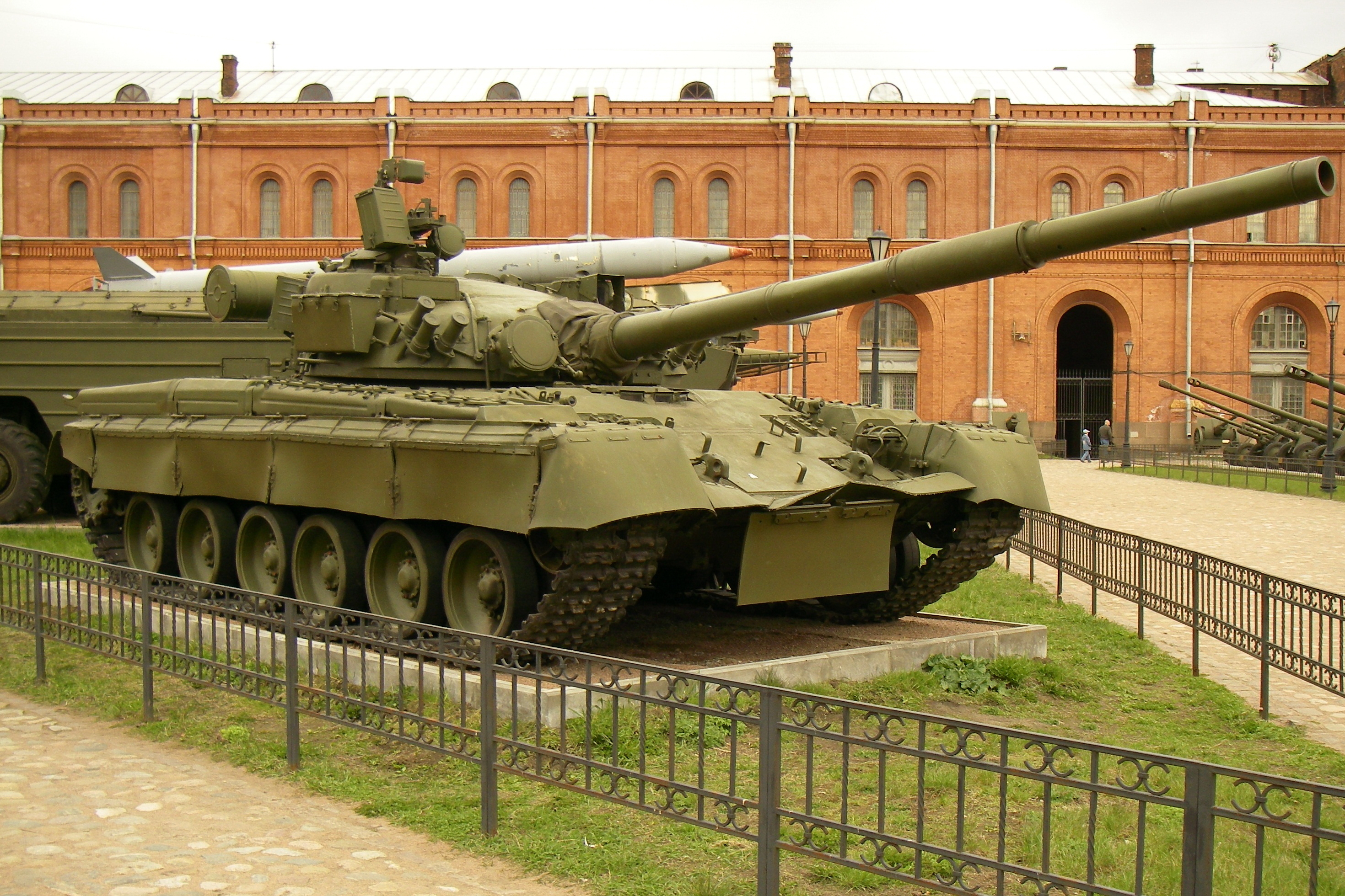 T-80B tank in Saint-Petersburg Artillery museum